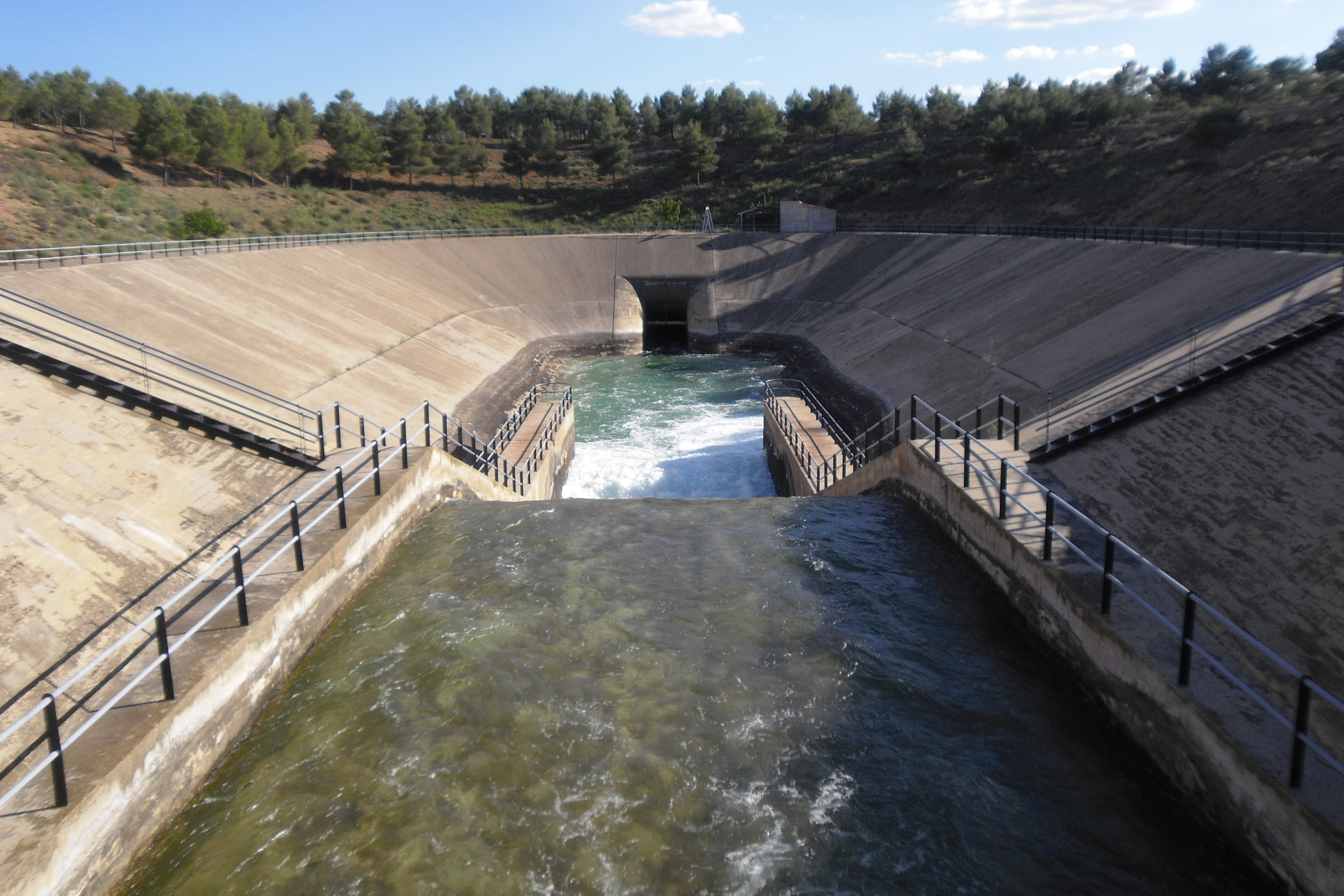 Reservoir Los Anguijes, end of water transfer open section Tajo-Segura, beginning Talave tunnel.